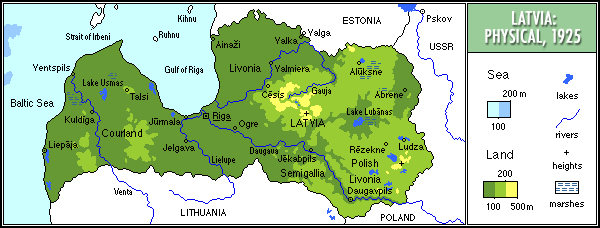 Map of Latvia 1920-1940/Mapa Łotwy, 1920-1940